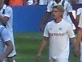 Emil Johansson at FC Groningen in the Euroborg